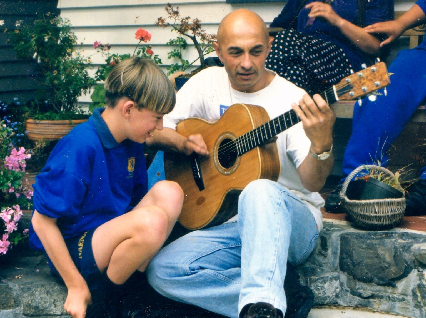 New Zealand politician Ray Ahipene-Mercer at his home